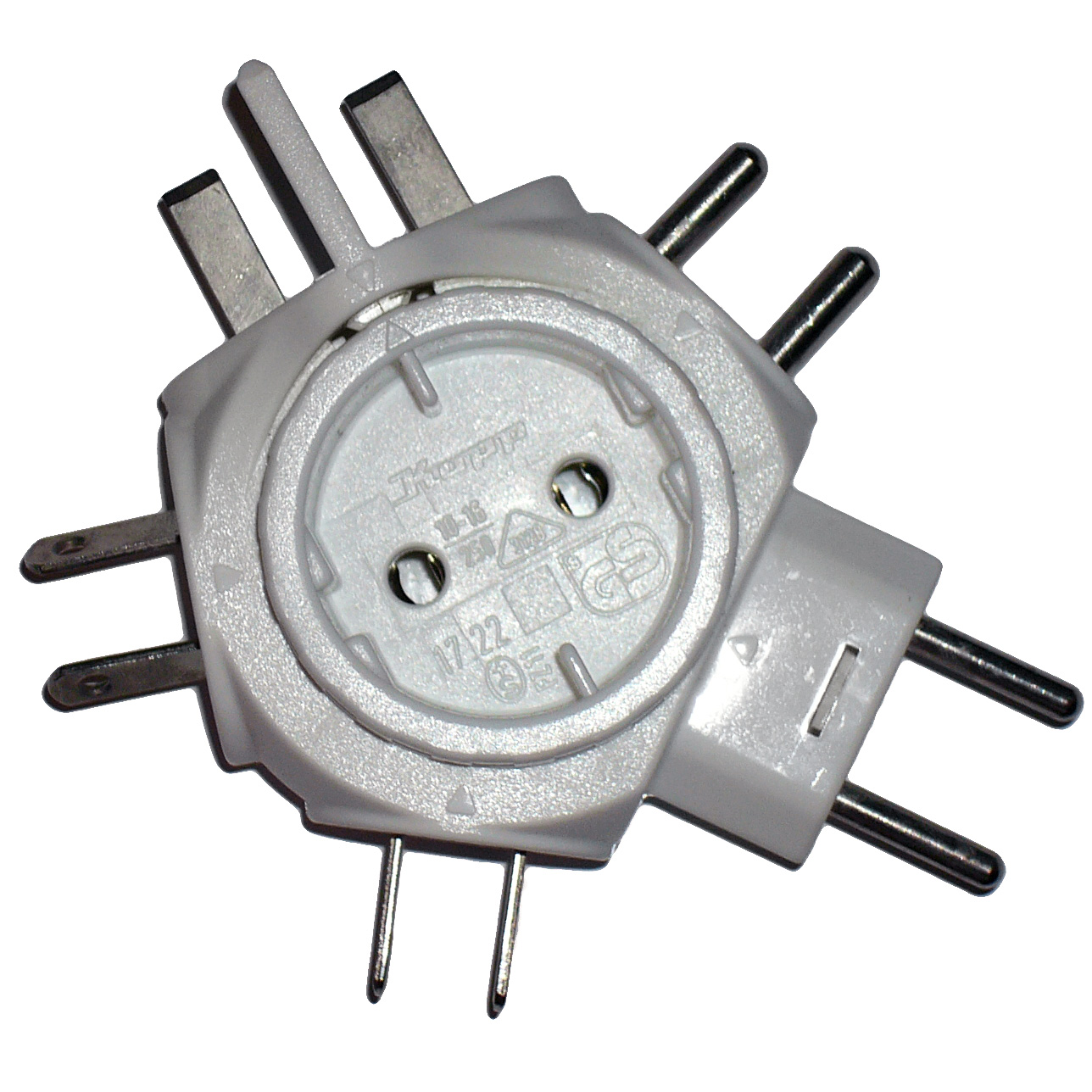 Ungrounded (2 pole) travel adapter for equipment with either a Europlug (CEE 7/16) or CEE 7/17 plug. Note that the adapter has plastic fins which will prevent the use of any of the common grounded European power plugs of Type E (French), type F (Schuko) or the the CEE 7/7 type (Type E/F hybrid plug). This adapter will fit the wall outlets made for (starting from the lower right and going clockwise): Type C (European), A (USA), I (Australian), G (British), and one unidentified plug presumed to be BS 372 (Part 1) according to the online home page of the Museum of Plugs and Sockets.